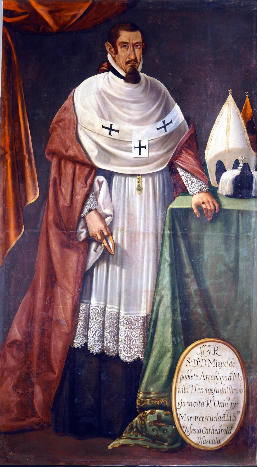 This painting shows His Most Reverend Miguel de Poblete y Casasola, also known as, Miguel Millán de Poblete, Bishop of Nicaragua and Costa Rica (today León) and Archbishop of Manila.